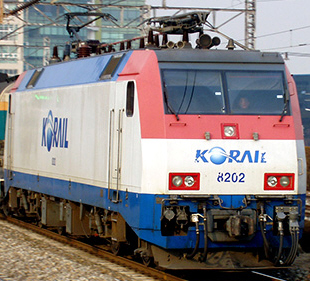 Korail EL 8200, at Gunpo station.